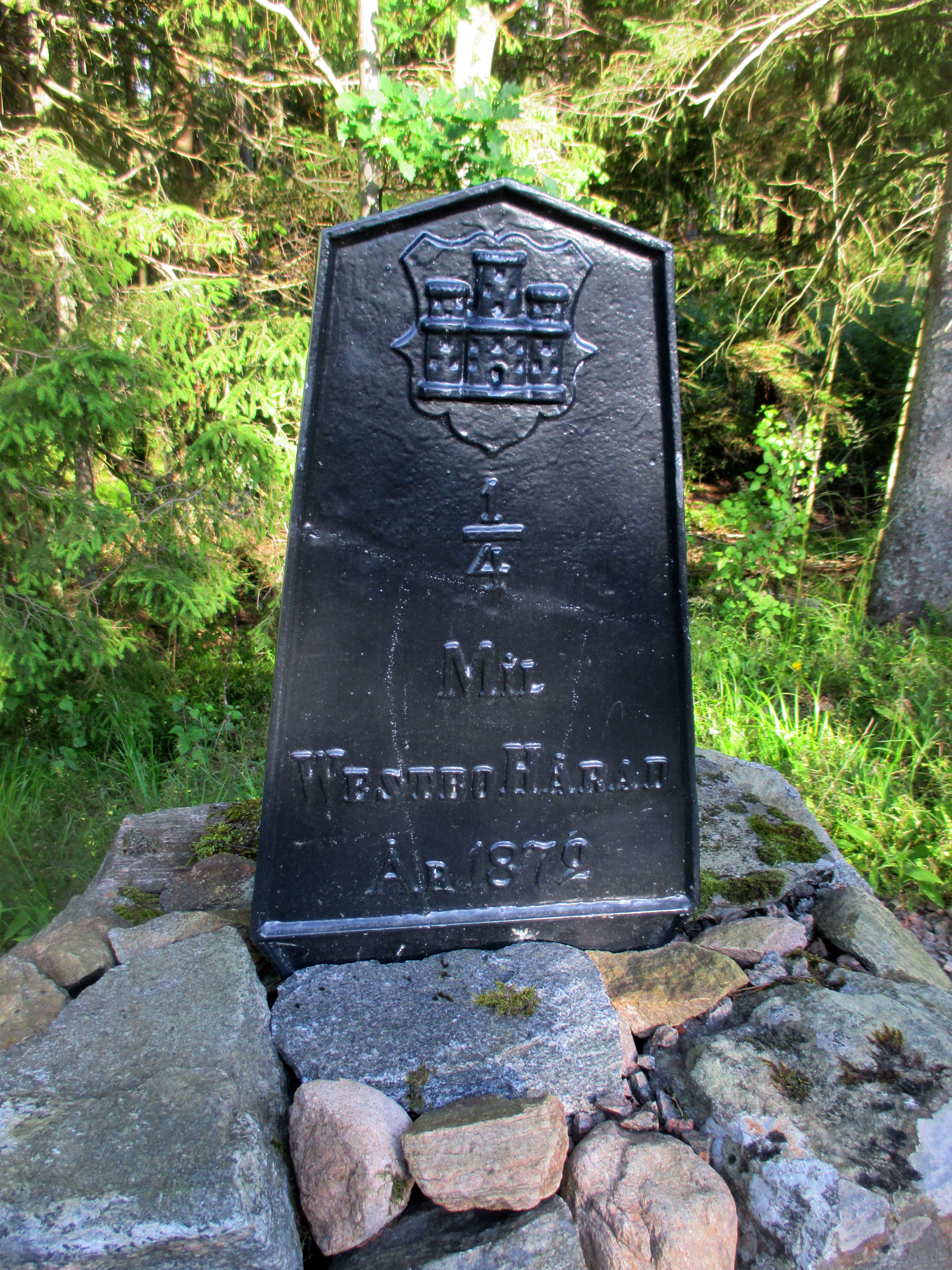 Mile marker made of cast iron situated 3 km north of Unnaryd, Södra Unnaryd Parish, Hylte Municipality, Halland County, Finnveden, Småland, Sweden.